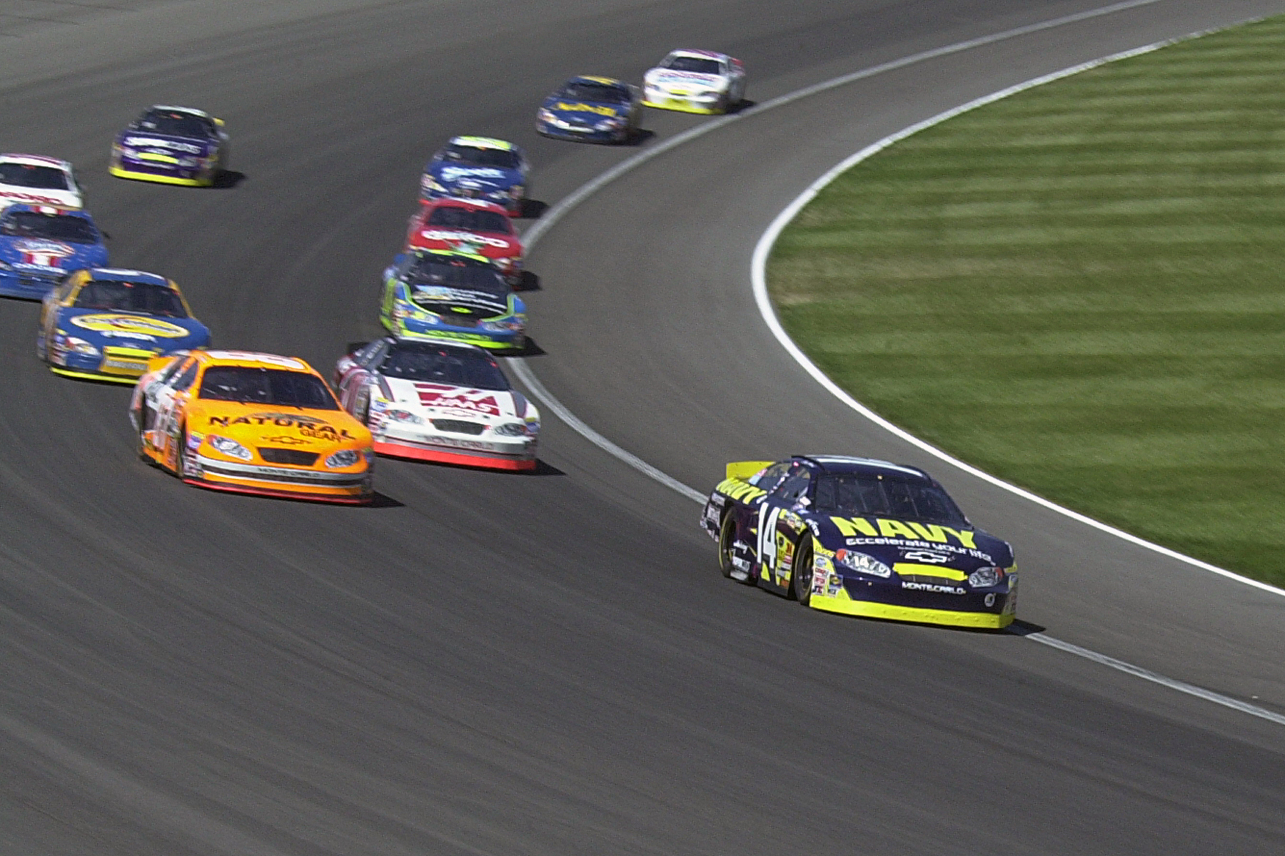 Fontana, Calif. (May 1, 2004) - The U.S. Navy sponsored Chevy Monte Carlo NASCAR leads a pack into turn four at California Speedway during the Stater Bros. 300 race. The Fitz-Bradshaw owned car, which is driven by Casey Atwood, is sponsored by the Navy to help with recruiting. Atwood finished 29th in a field of 43 starting drivers. U.S. Navy photo by Chief Journalist Erik Schneider. (RELEASED)